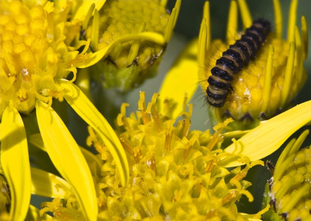 One of a huge number of these tiny caterpillars feeding on ragwort. Tyria jacobaeae or the cinnabar moth caterpillar. Gregarious small black and orange hoops with fine hairs.